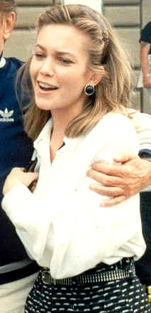 Diane Lane taken at the 41st Emmy Awards 9/17/89